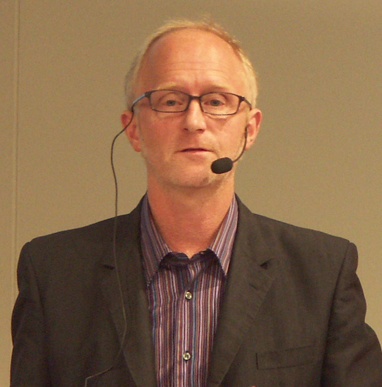 Bo Reimer, swedish university professor